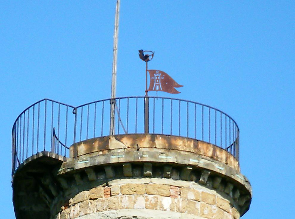 Weather vane